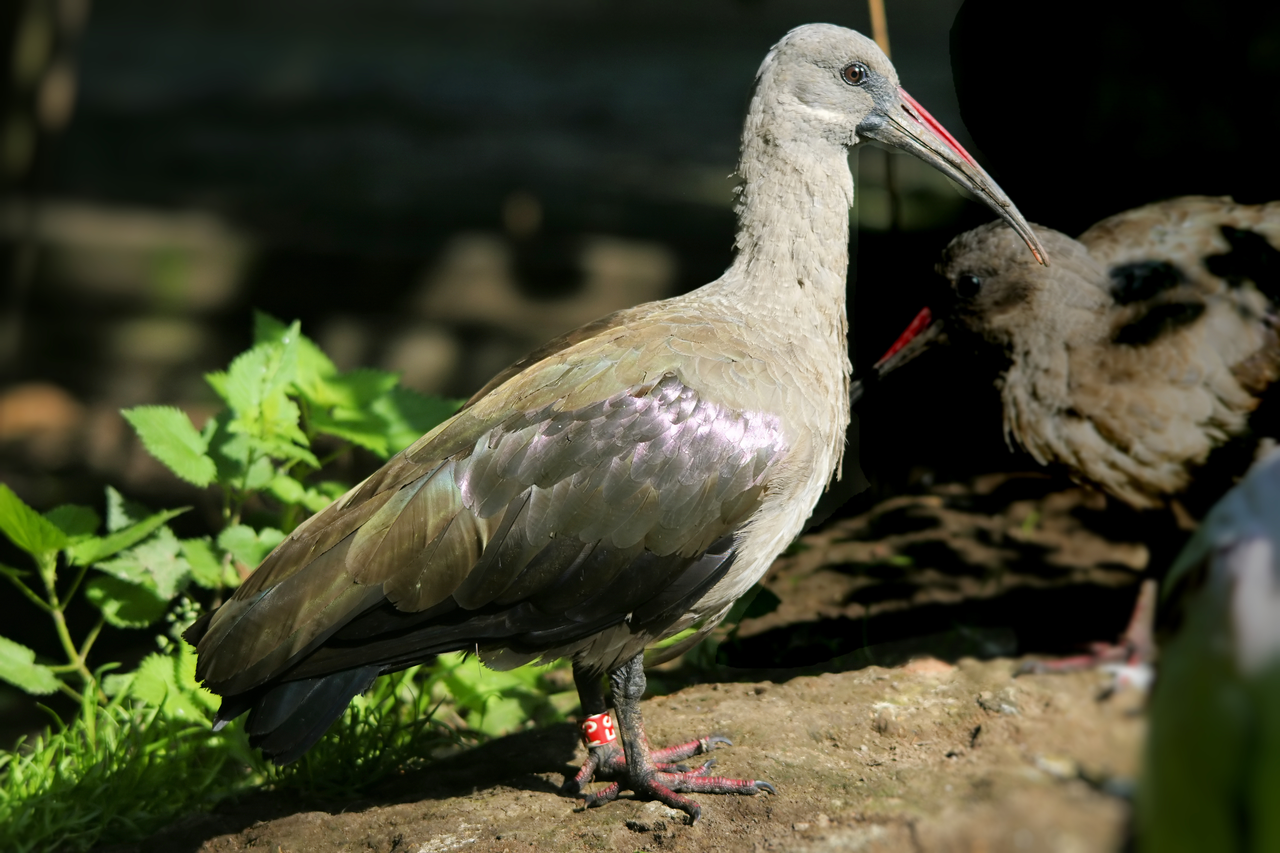 Hadeda Ibis at Pairi Daiza, Brugelette, Belgium